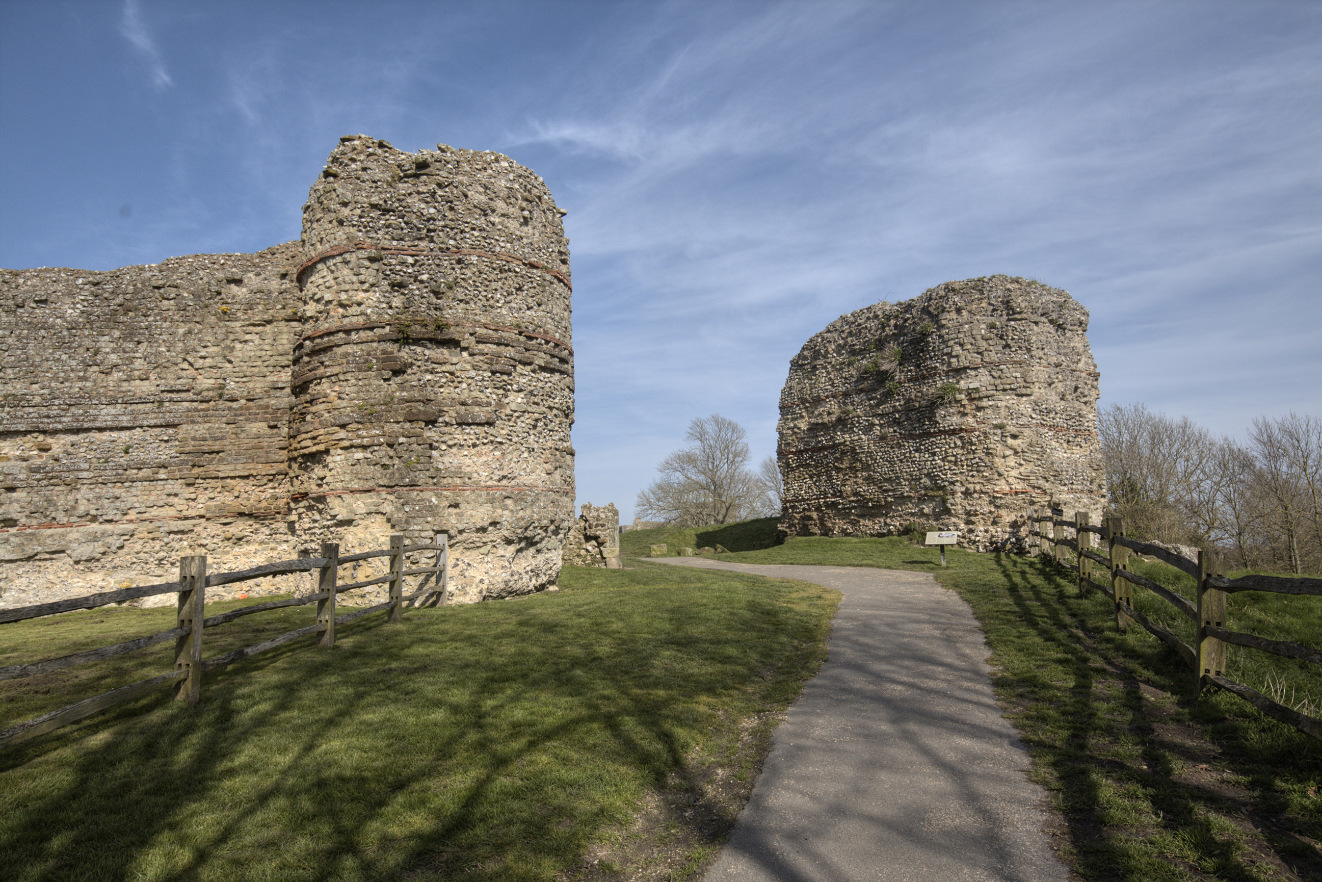 West gate of Pevensey Castle, East Sussex